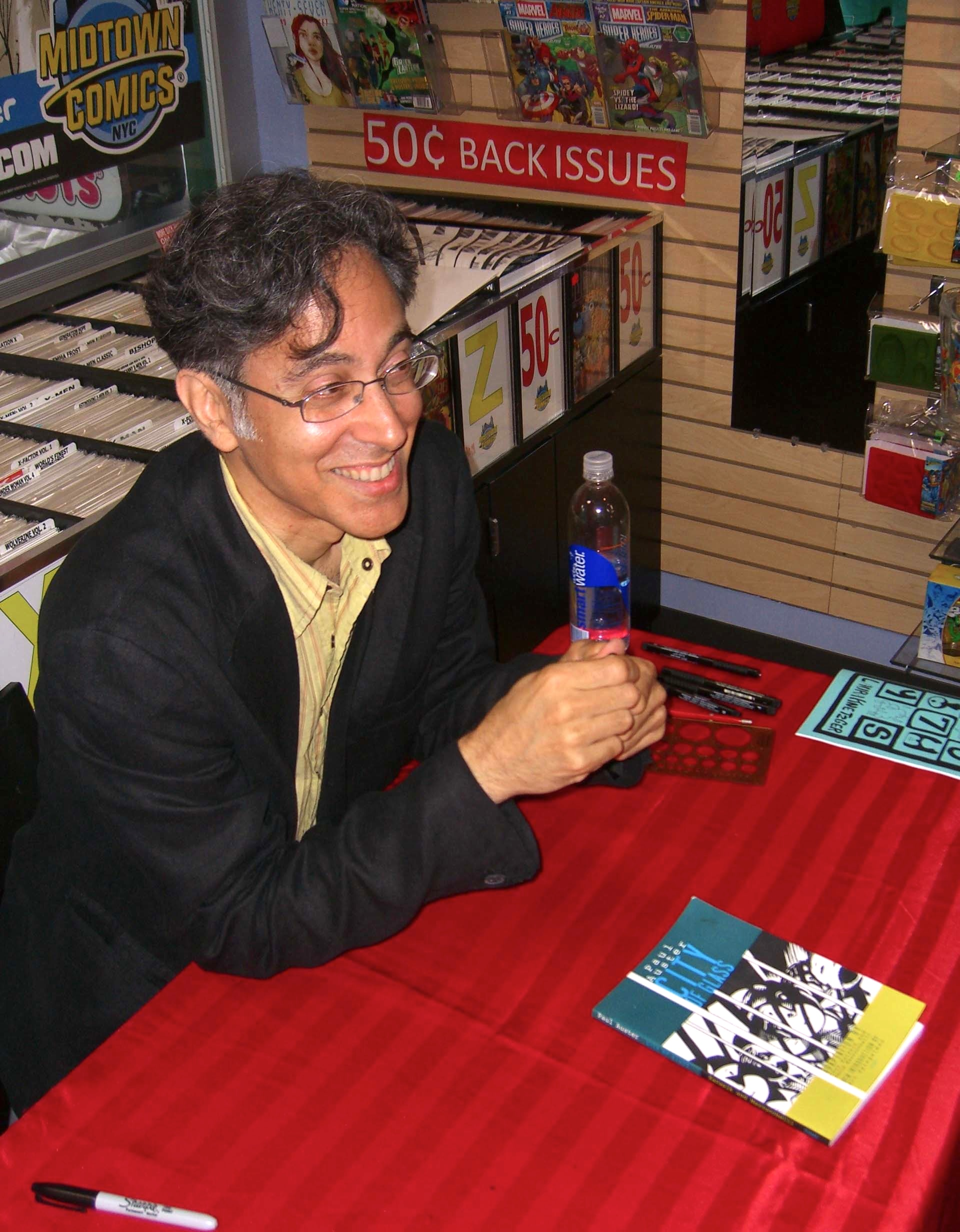 Comic book creator David Mazzucchelli at a June 28, 2012 signing for Daredevil Born Again: Artist's Edition at Midtown Comics Downtown in Manhattan. In the photo, Mazzucchelli is signing a a copy of the 1994 graphic novel, City of Glass (comics) |City of Glass . This photo was created by Luigi Novi. It is not in the public domain, and use of this file outside of the licensing terms is a copyright violation.